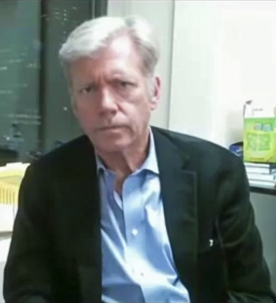 Chris Hansen during a discussion with filmmaker Shawn Rech